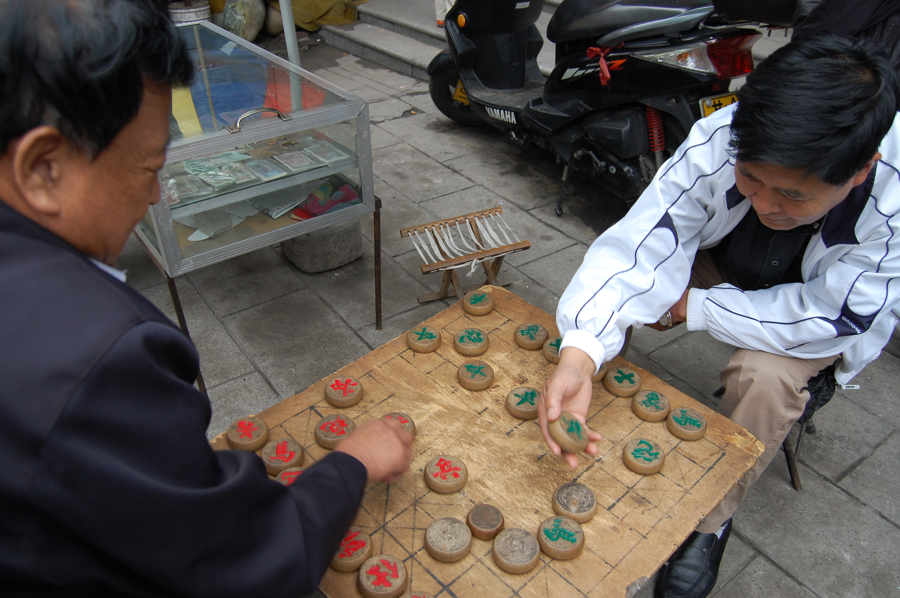 Chinese Chess (Xiangqi)